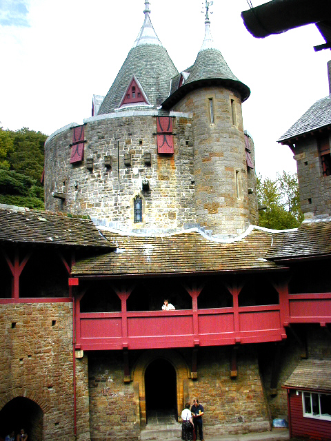 Castell Coch